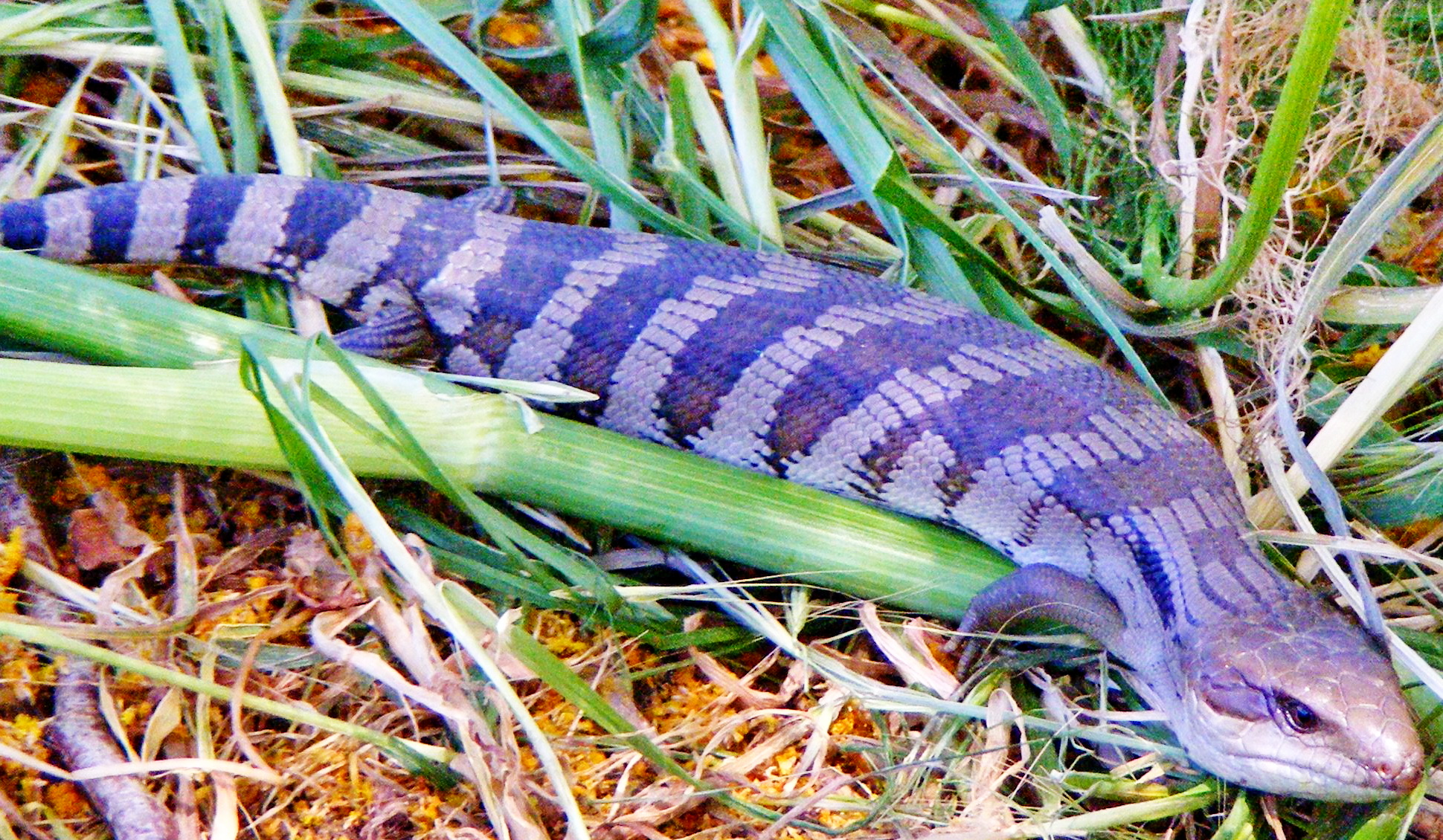 An immature eastern blue tounged lizard (Tiliqua scincoides) Photo taken in mid spring - the lizard is at the edge of a fennel forest in the upper gullies of Para Hills, South Australia